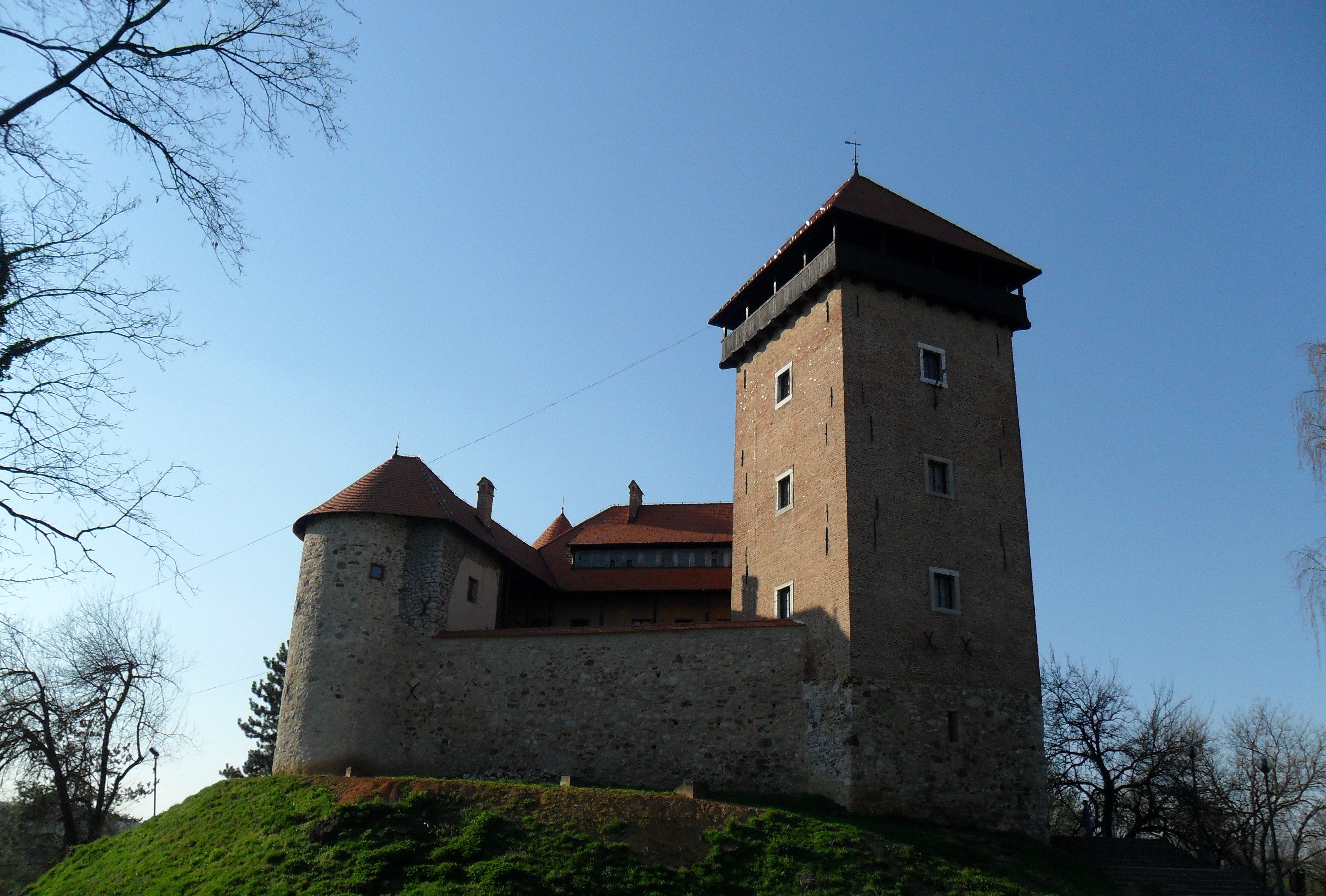 Dubovac Castle in Karlovac11, Croatia